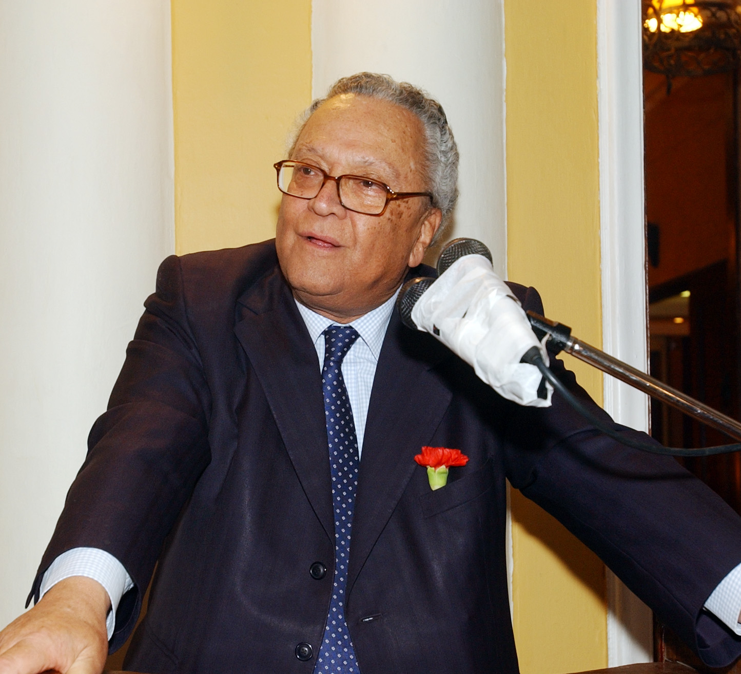 Gonzalo Figueroa Yáñez